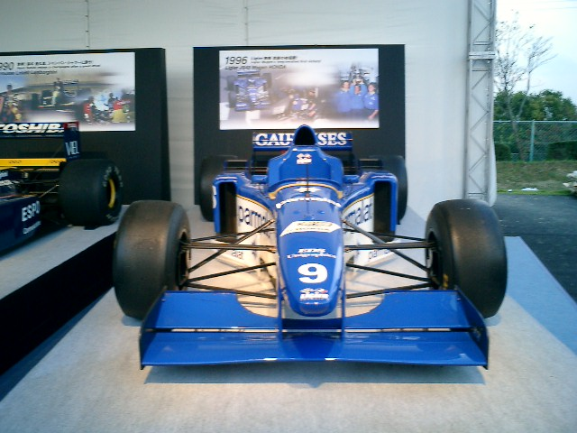 The Ligier JS43 at an exhbition in Suzuka, 2004